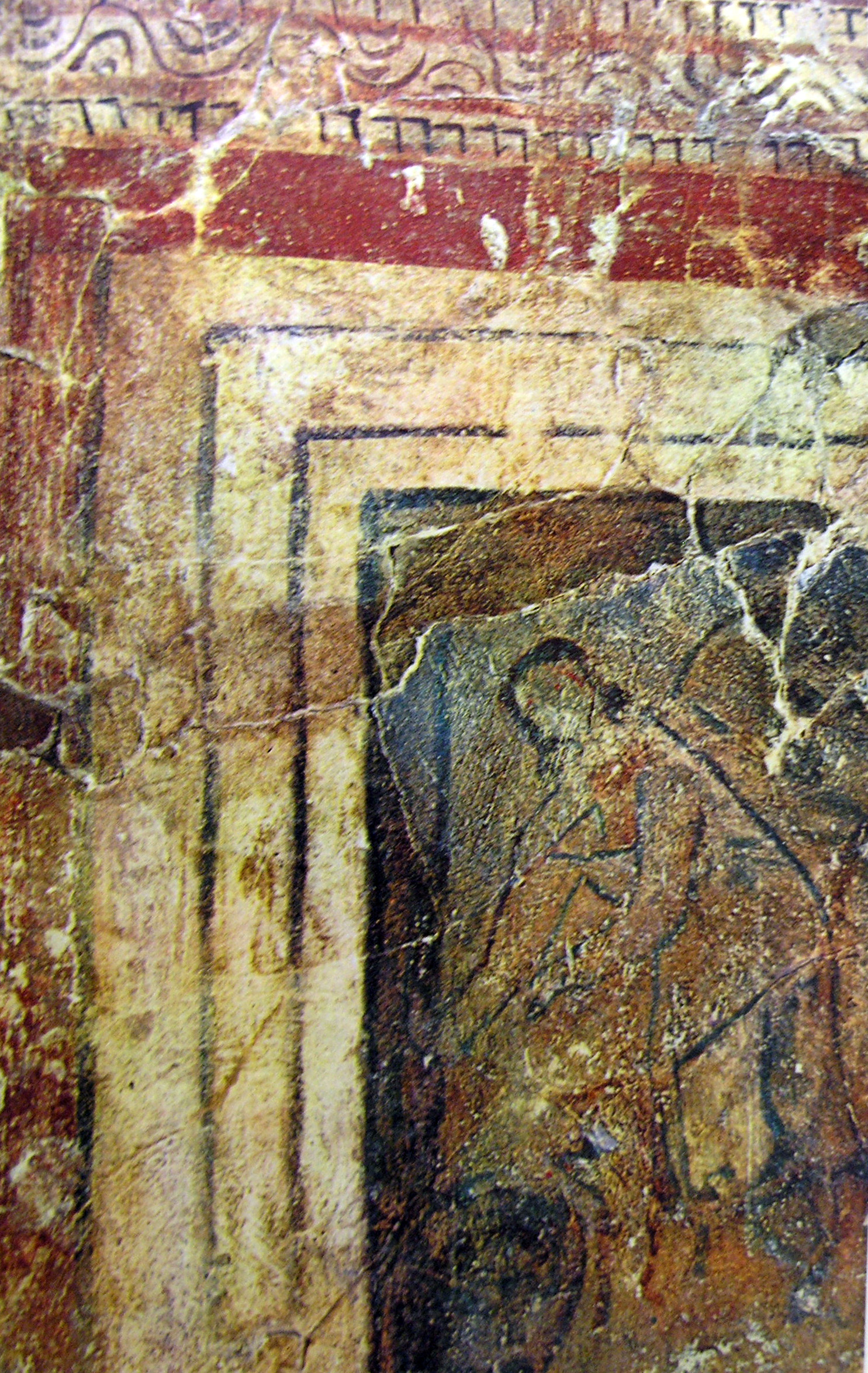 The Samaritan at the well. Wall painting in the baptistry of the domus ecclesiae in Dura Europos.